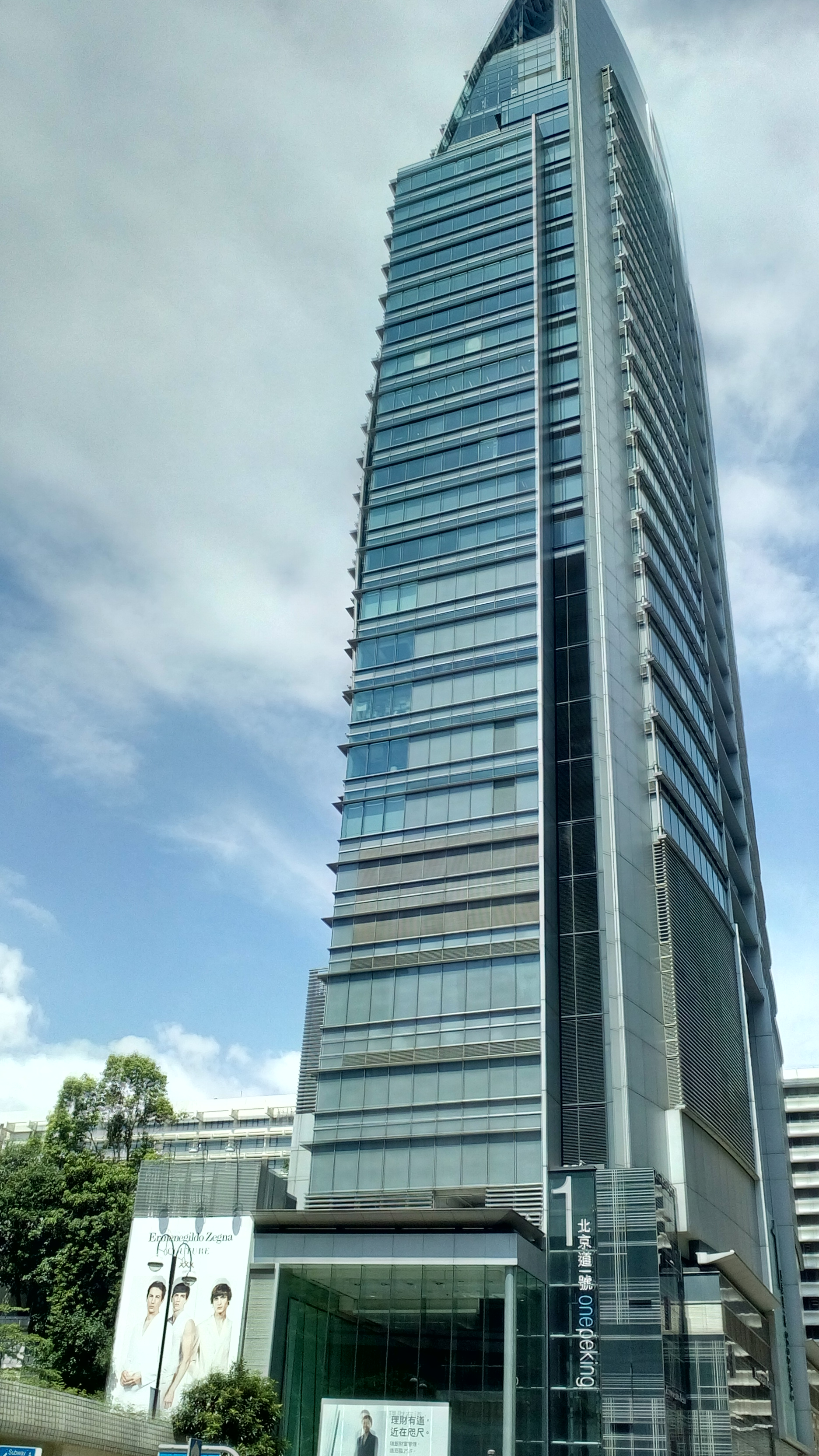 The front door of 1 Peking.